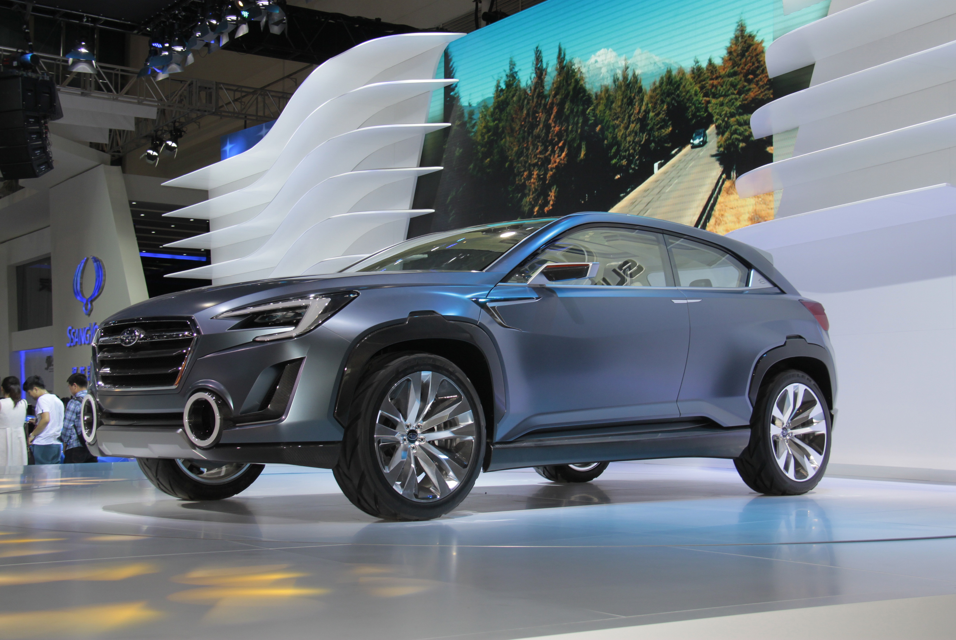 Subaru Viziv 2 at Auto China 2014 (Beijing)